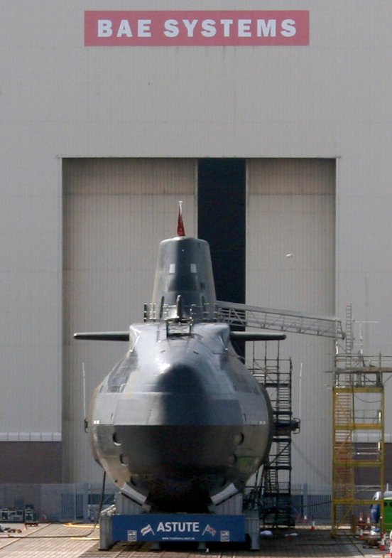 Cropped version of public domain File:Astute1.JPG